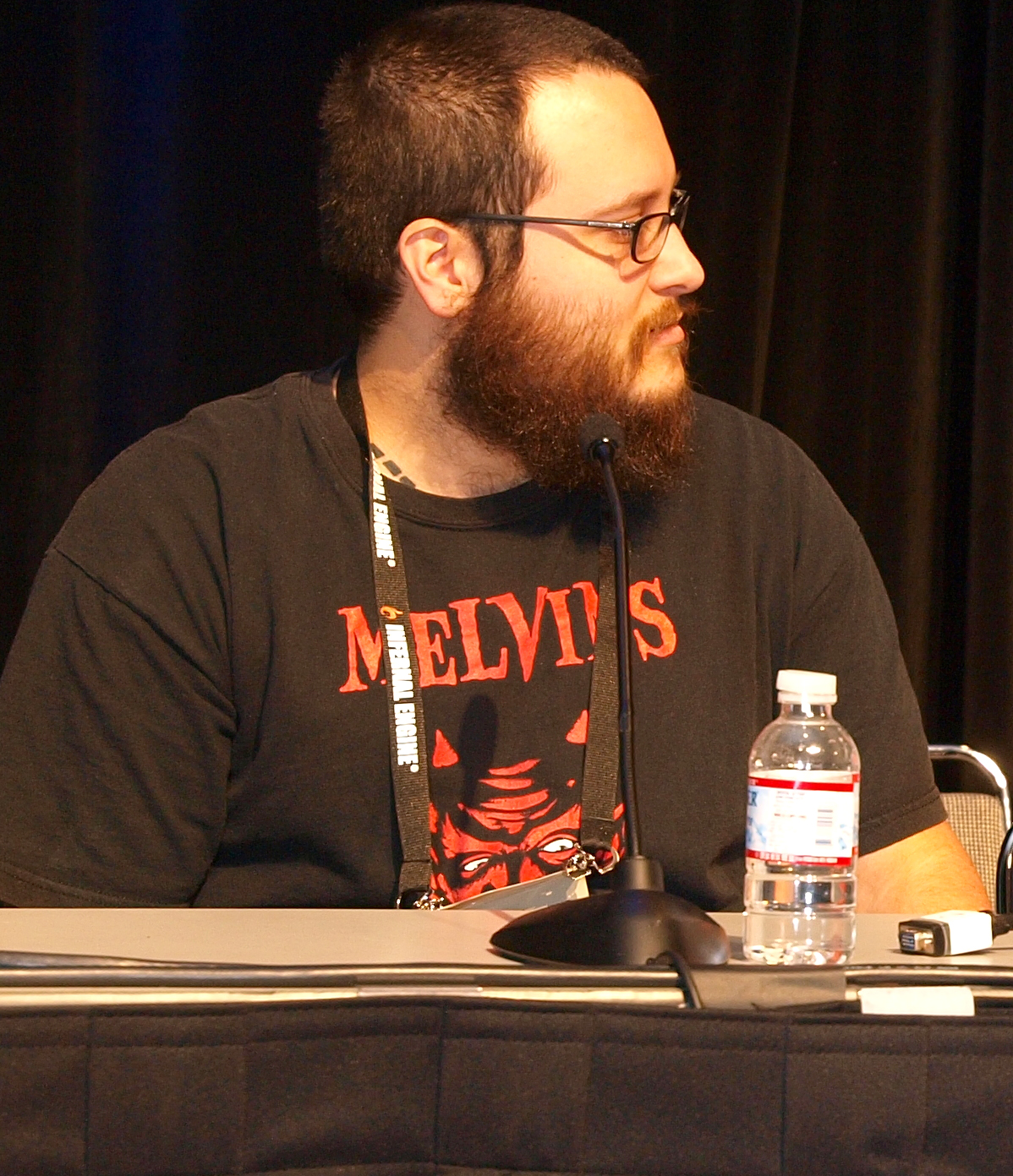 Edmund McMillen at Game Developers Conference in March, 2010